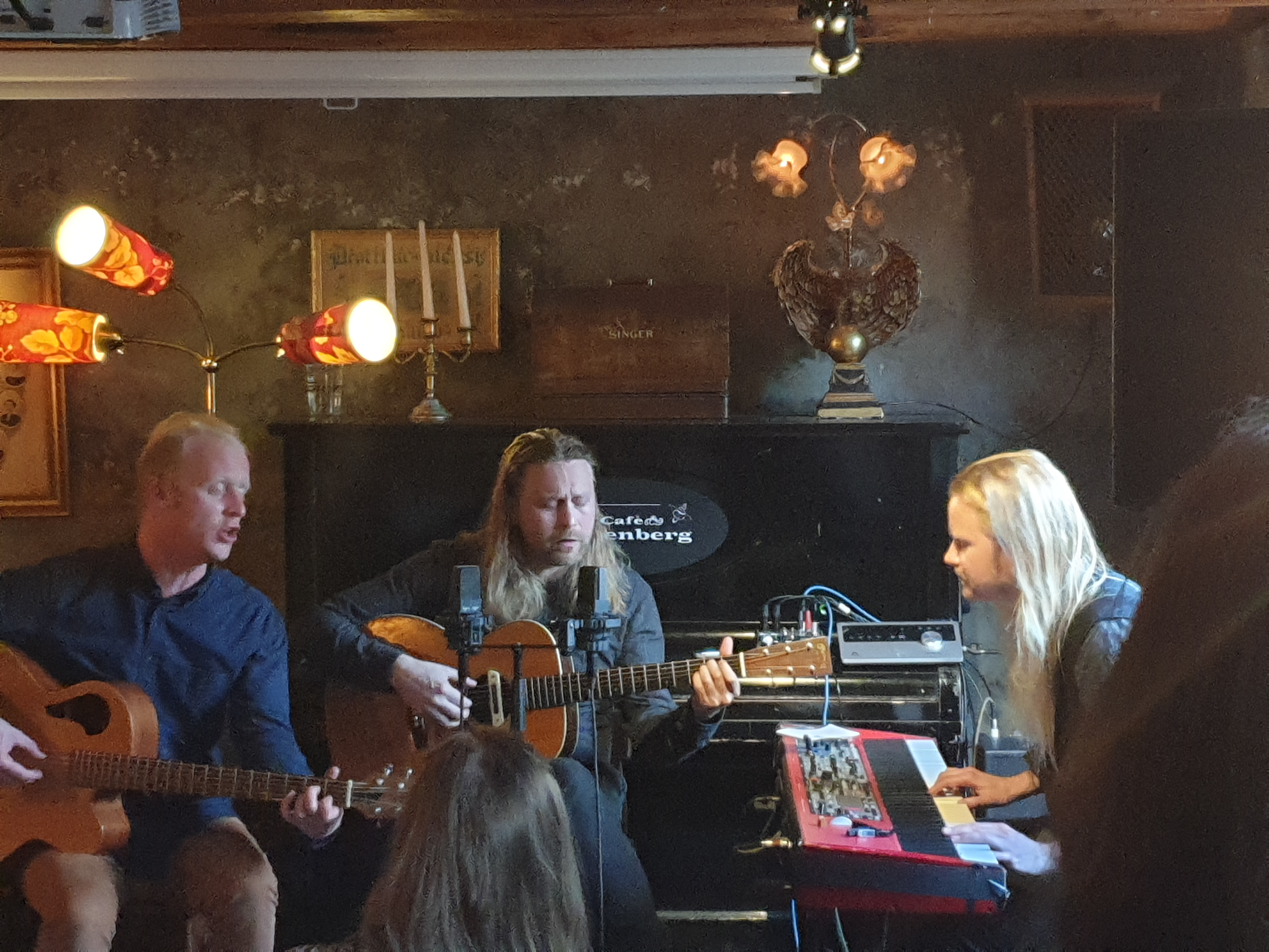 Árstíðir in Café Rosenberg